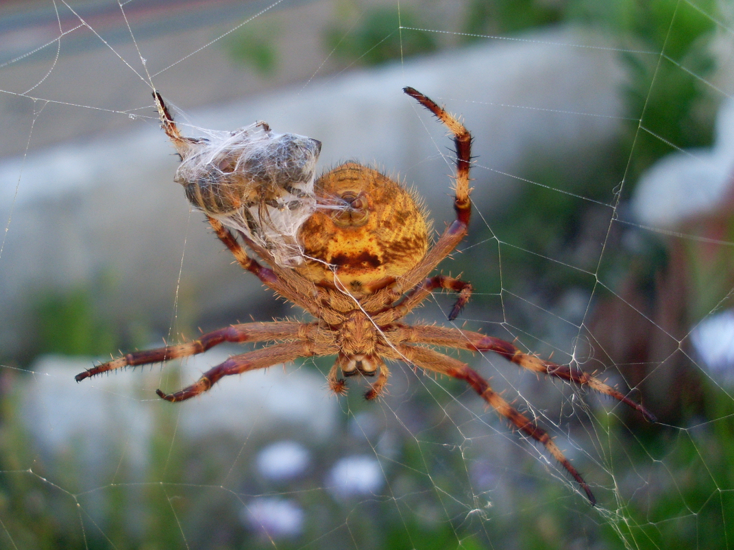 Eriophora transmarina - Garden Weaver